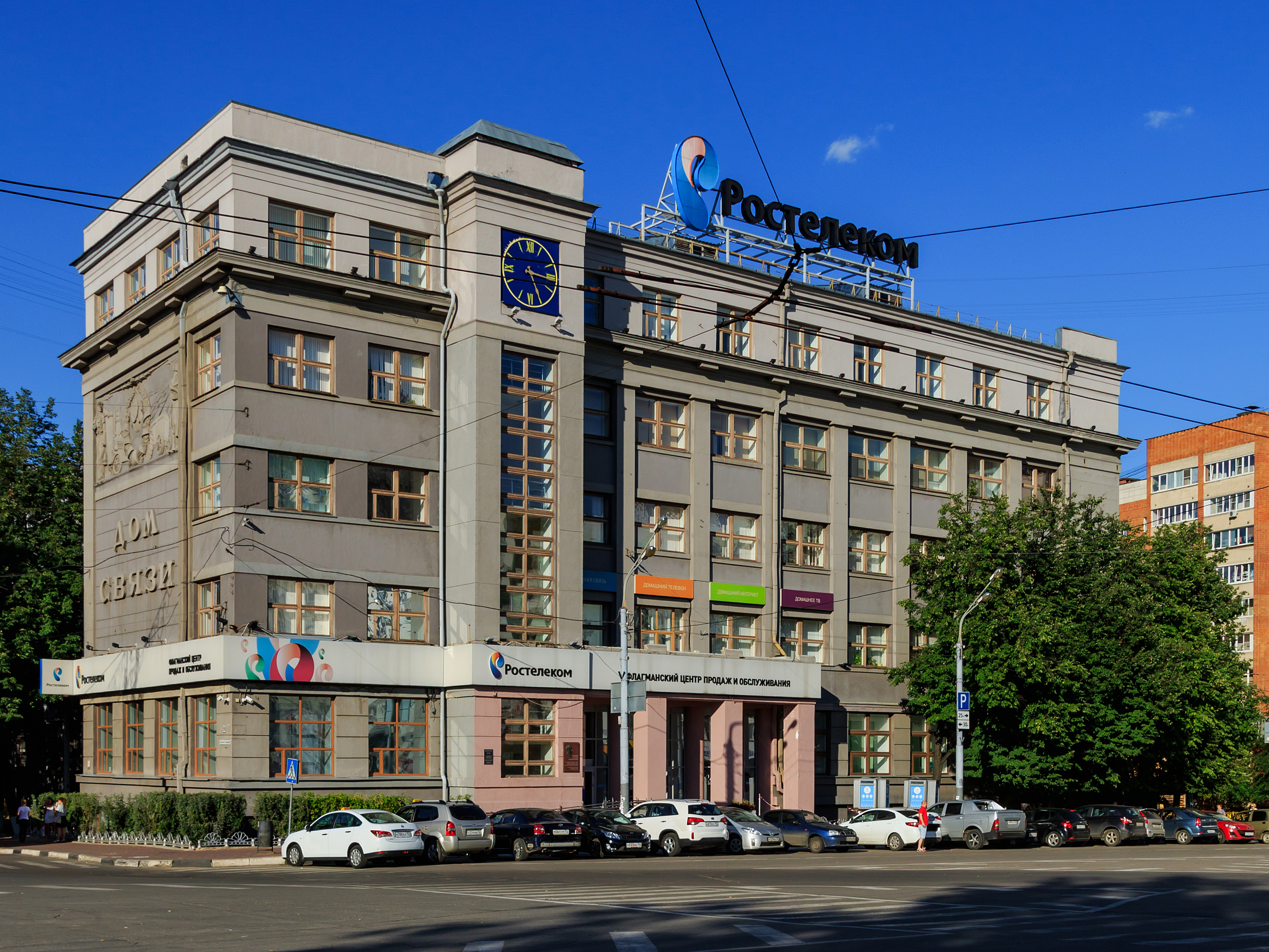 House of the Communication (Main Post Office) in Nizhny Novgorod, Russia